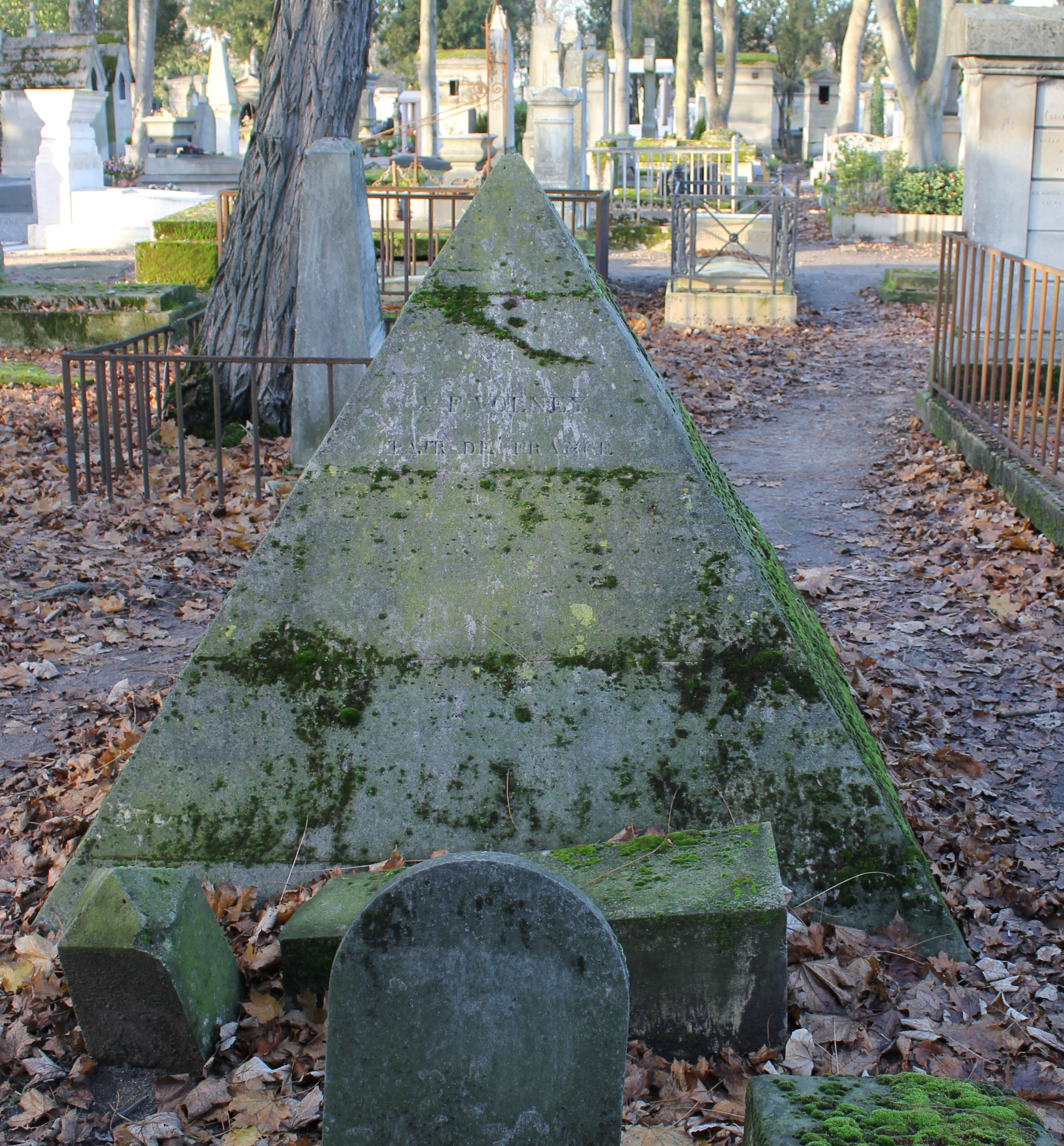 Constantin-François Chassebœuf's tombstone in Père Lachaise Cemetery, in Paris.